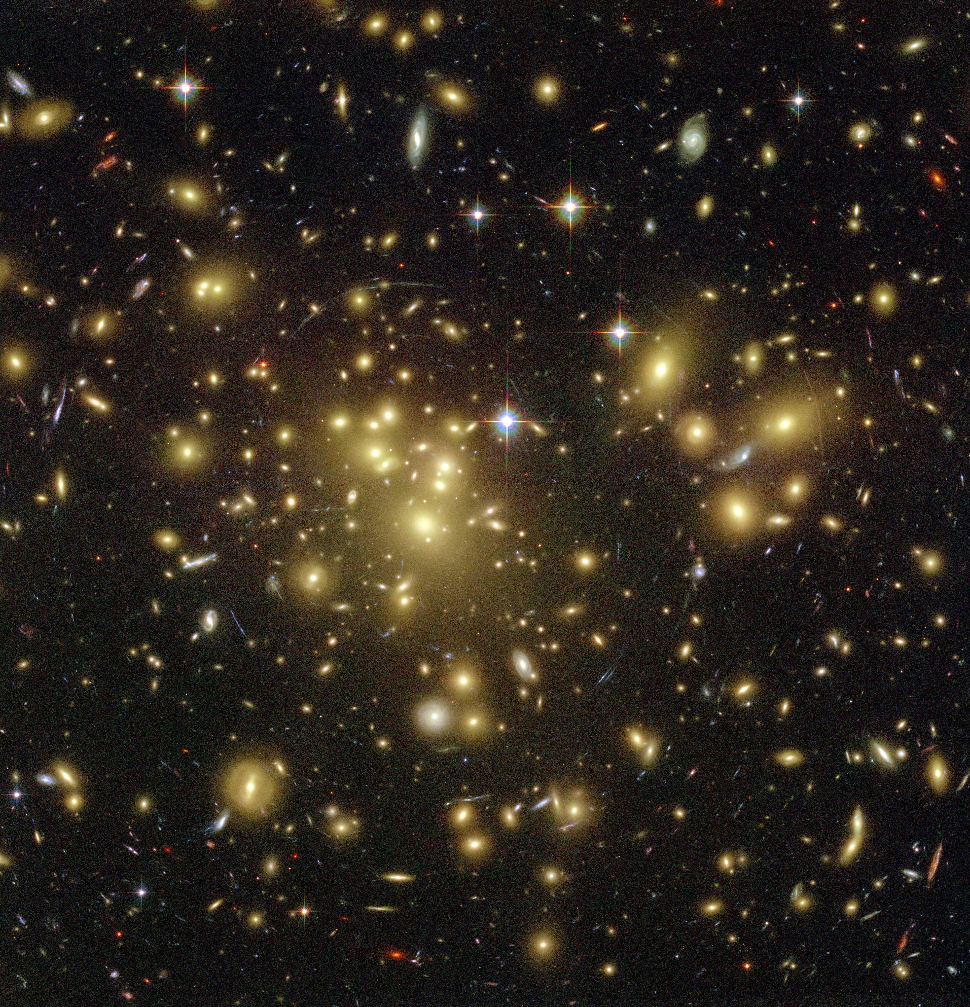 A massive cluster of yellowish galaxies, seemingly caught in a red and blue spider web of eerily distorted background galaxies, makes for a spellbinding picture from the new Advanced Camera for Surveys aboard NASA's Hubble Space Telescope. To make this unprecedented image of the cosmos, Hubble peered straight through the center of one of the most massive galaxy clusters known, called Abell 1689. The gravity of the cluster's trillion stars — plus dark matter — acts as a 2-million-light-year-wide lens in space. This gravitational lens bends and magnifies the light of the galaxies located far behind it. Some of the faintest objects in the picture are probably over 13 billion light-years away (redshift value 6).